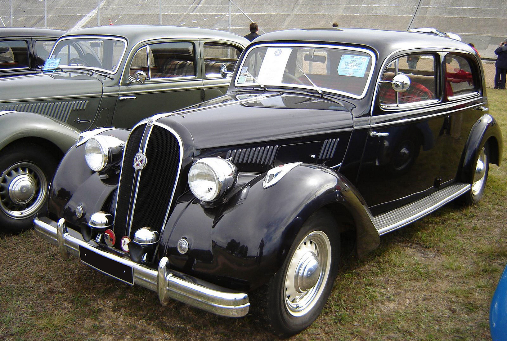 1949 Hotchkiss 864 S49 Artois (four-door berline) at Linas-Montlhéry